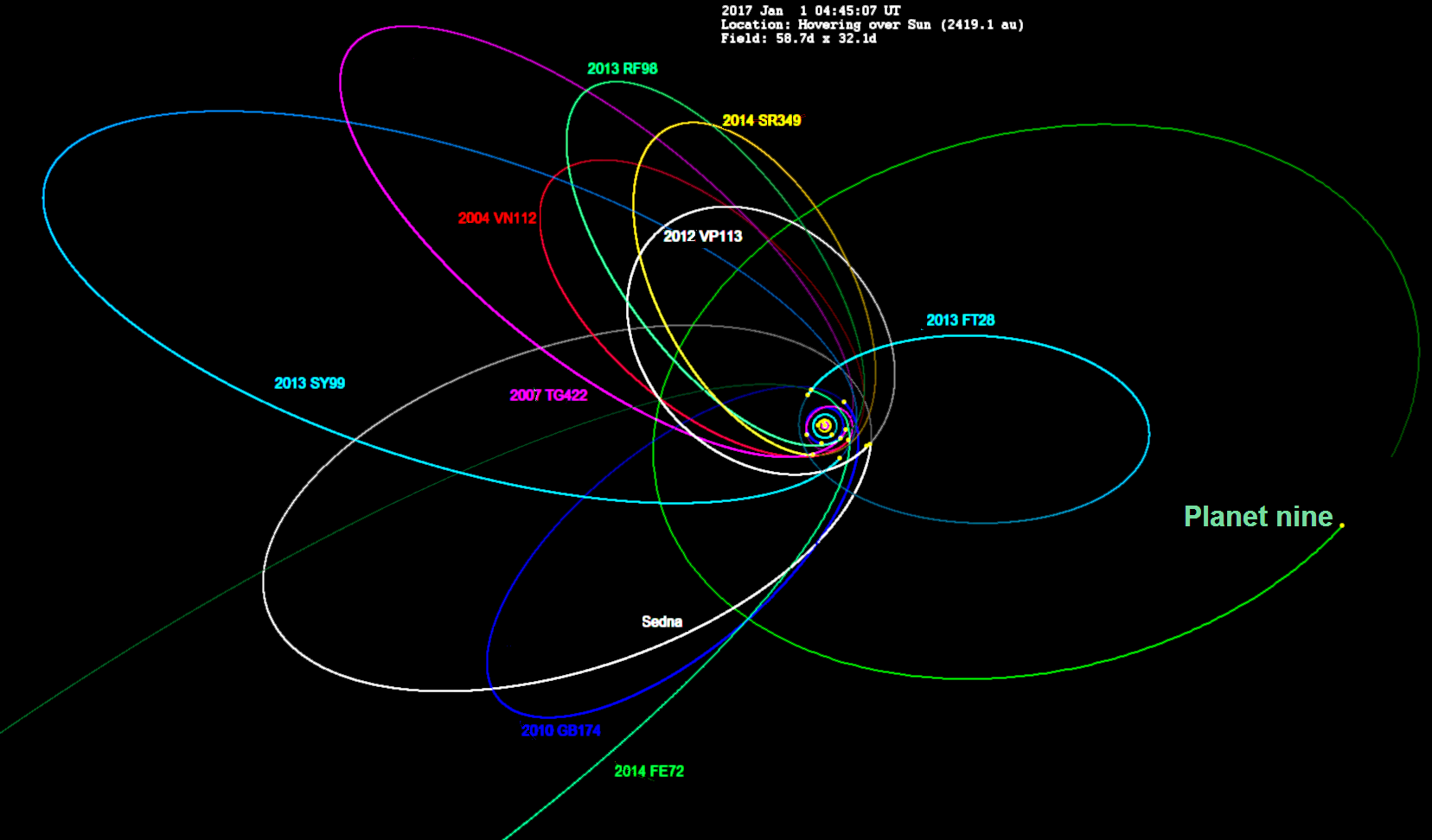 Planet nine Extreme Trans-neptune objects with orbits and current positions.